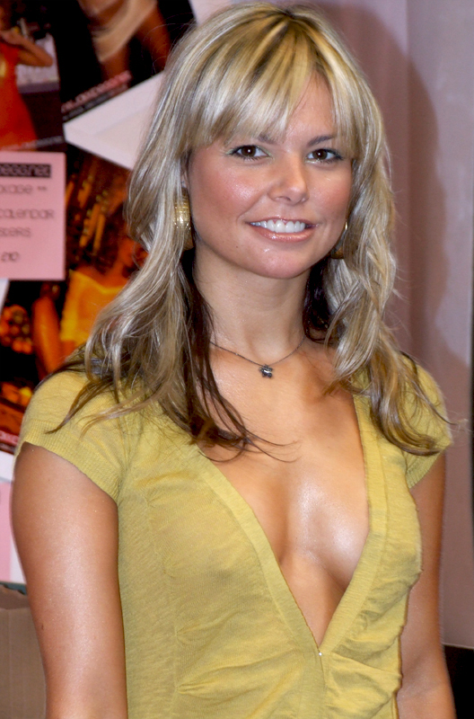 Jakki Degg at the 2006 Max Power Show.